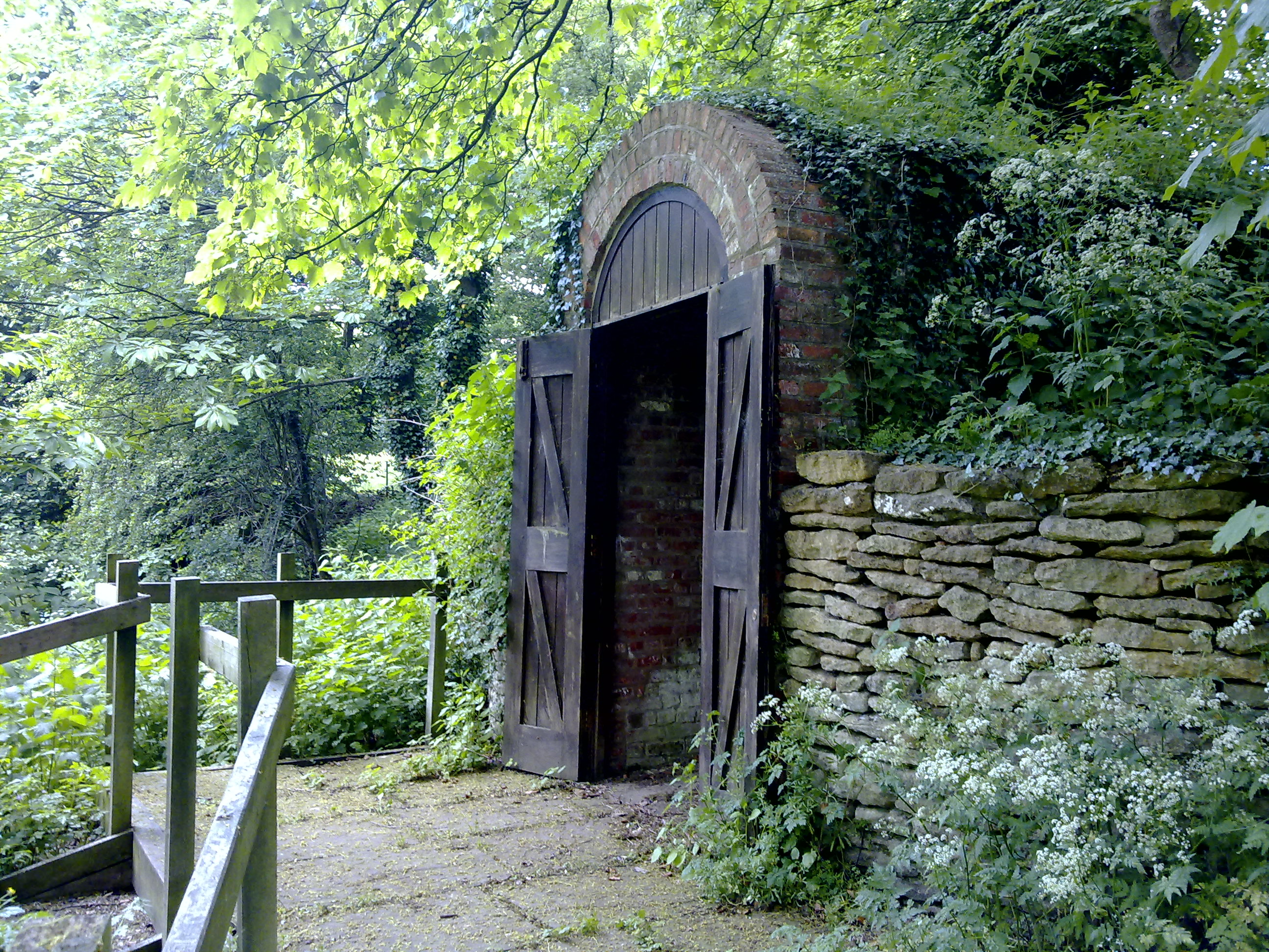 Wykeham Ice House